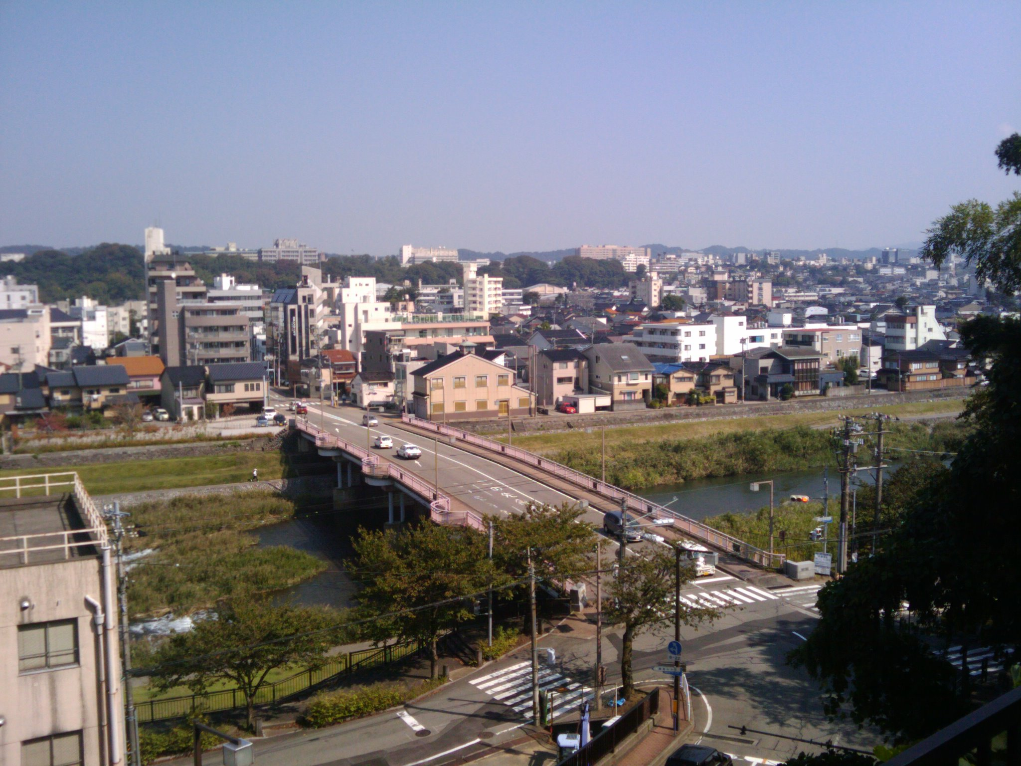 The Sakurabashi bridge over the Saigawa river in Kanazawa city, Ishikawa, Japan.